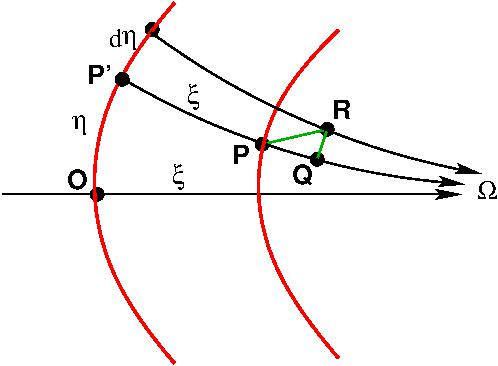 Construction of horocyclic coordinates.